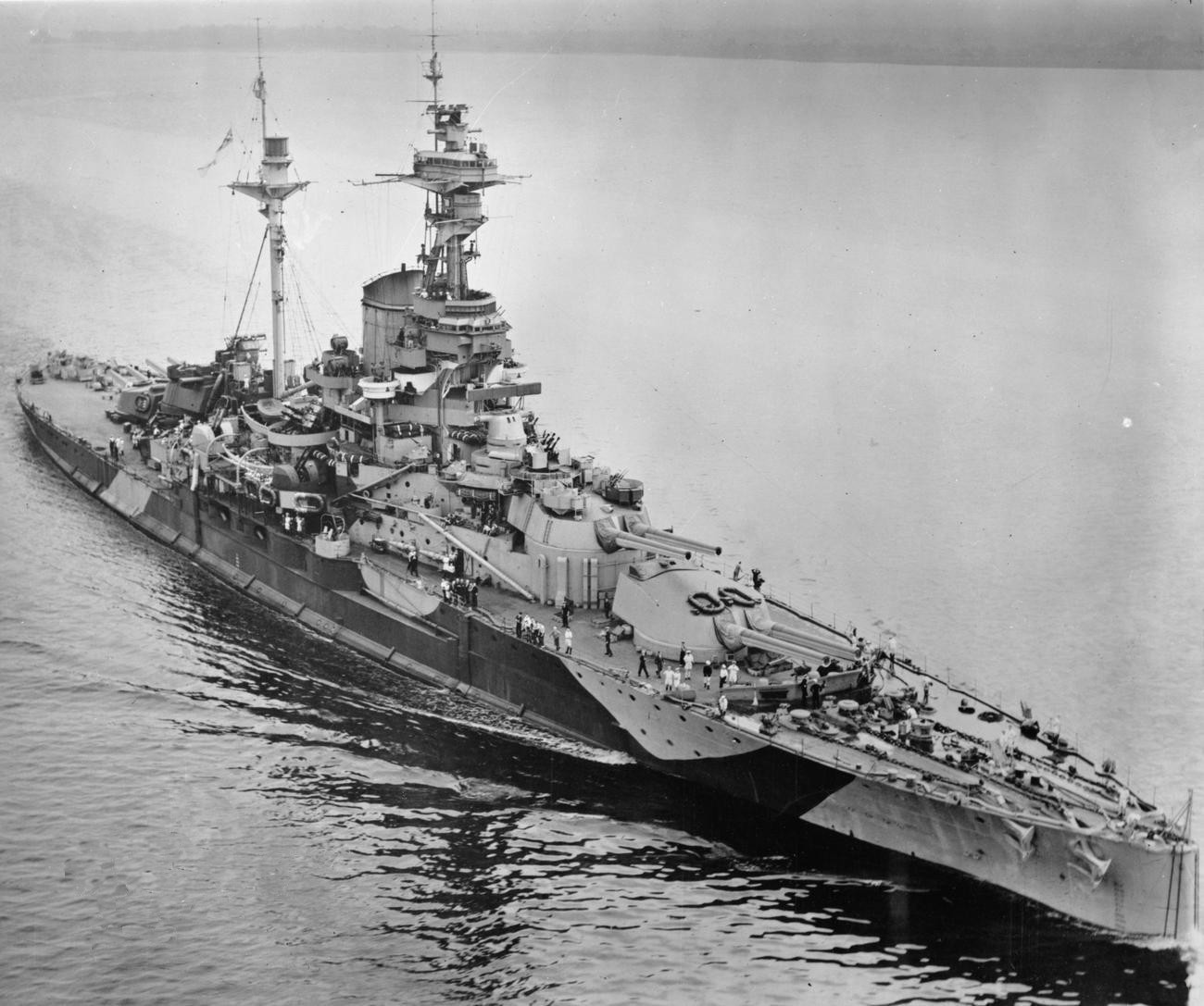 HMS Royal Sovereign Underway in the Philadelphia Naval Yard.